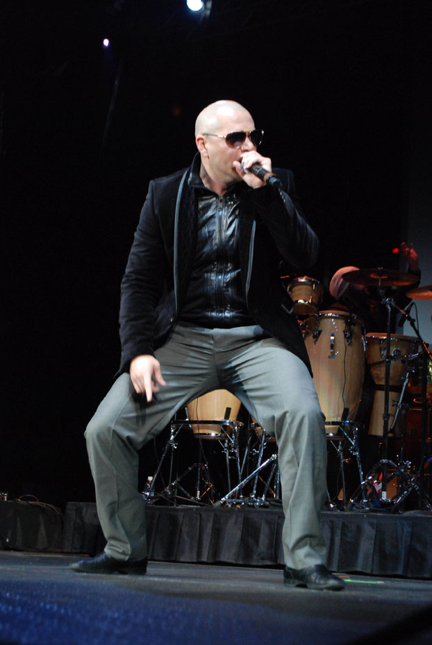 Pitbull peforms at Allstate Arena, B96 Jingle Bash, December 15, 2009, photo by Adam Bielawski